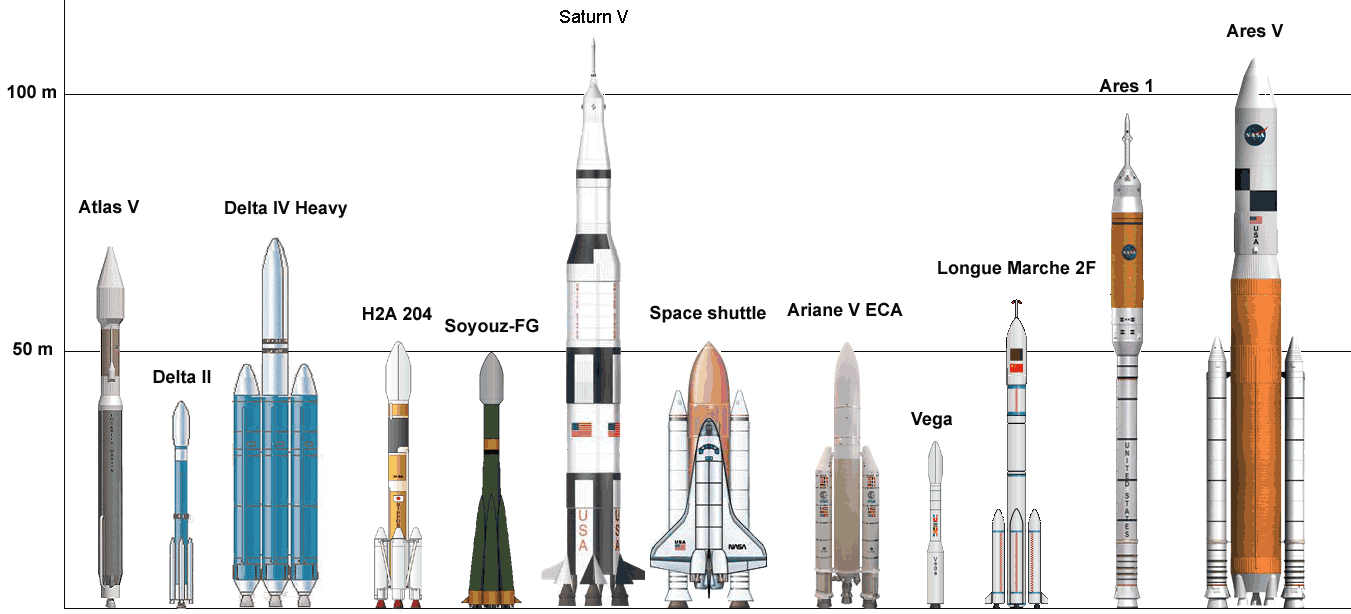 Size comparaison of some rockets